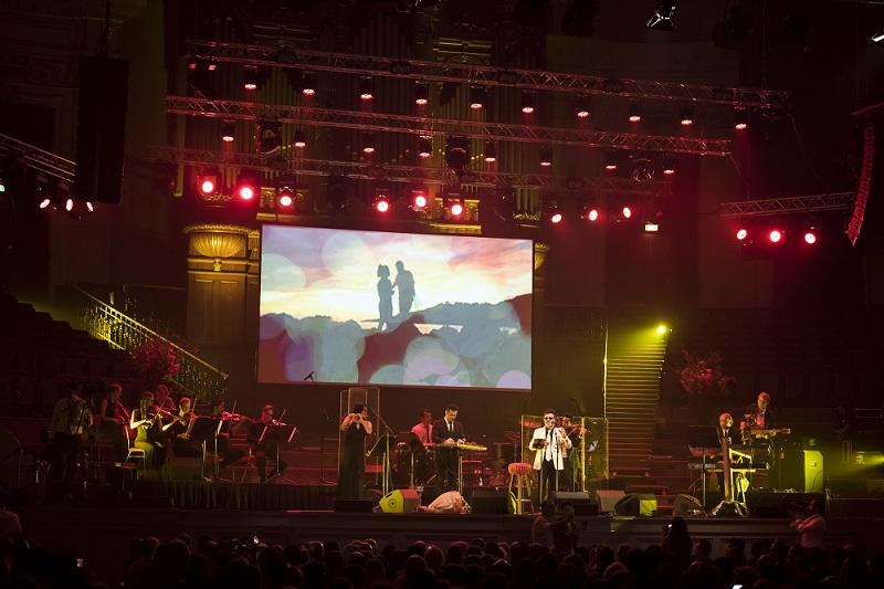 Moein, Persian pop singer, in a concert at Amsterdam's Concertgebouw - 5th Sep. 2015 - Photo by Arash Nikkhah / Persian Dutch Network